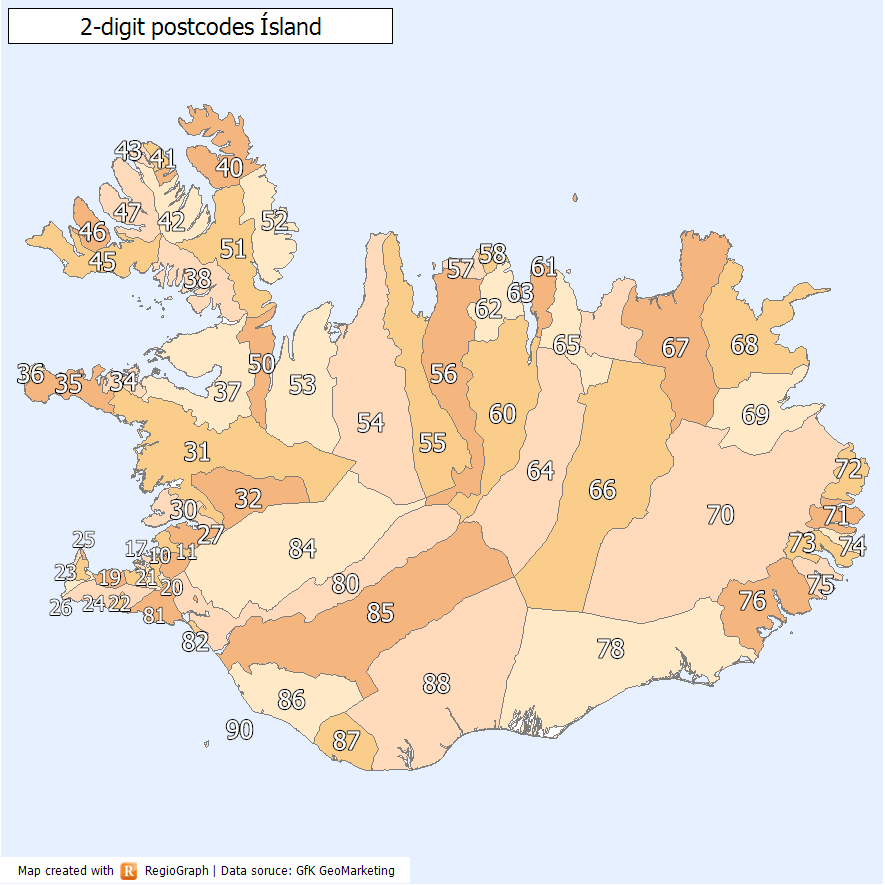 2-digit postcodes Iceland: postcode areas, described through the first two digits of Iceland's postcode system.